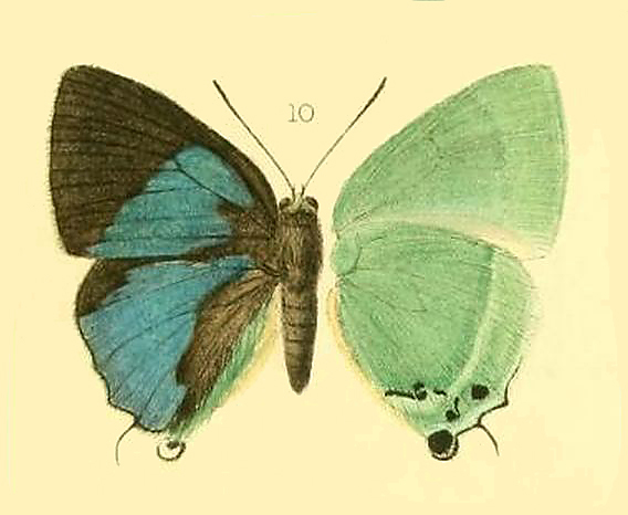 Artipe dohertyi, male, as Deudorix dohertyi, from Oberthur, 1894.